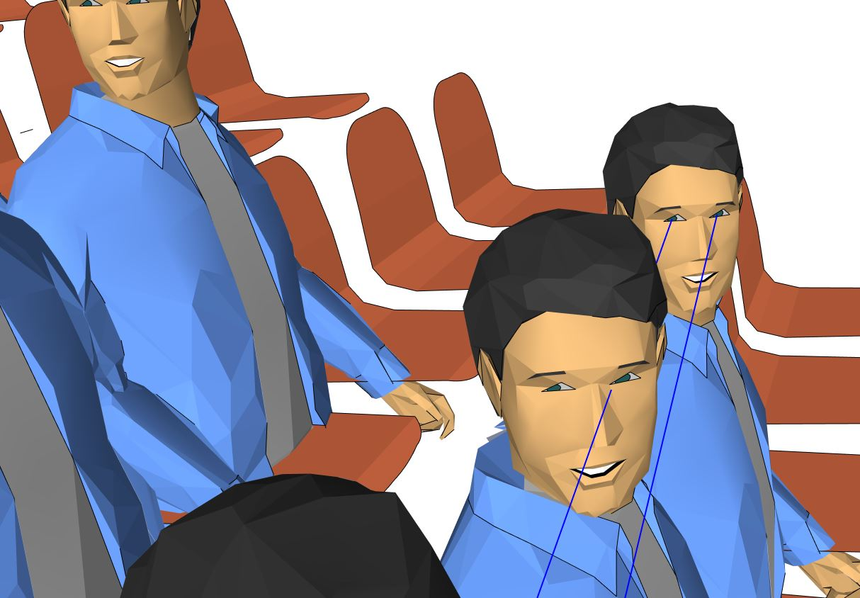 3D illustration of the sightlines of spectators to the far end corner flag of the closer touch-line of a football pitch.